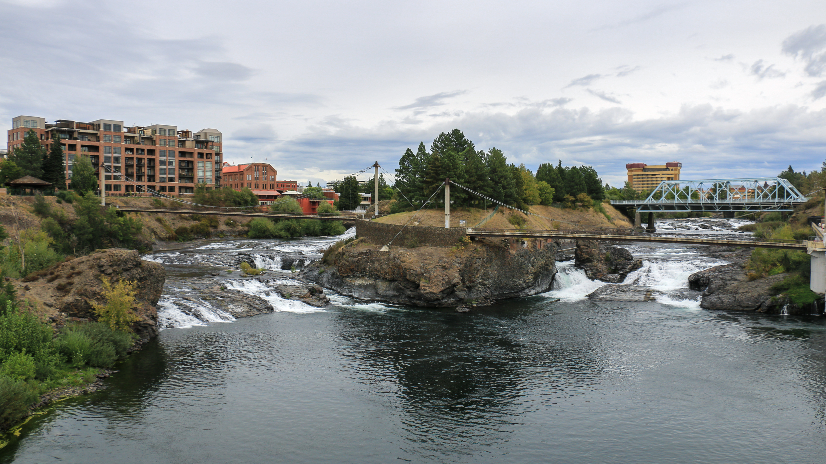 Upper Spokane Falls, Spokane